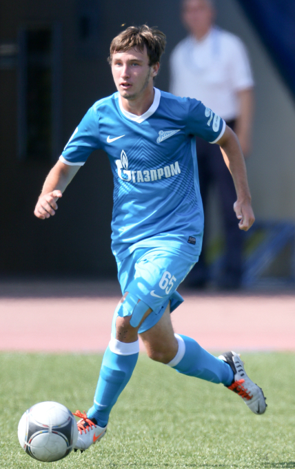 Danila Yashchuk in action for FC Zenit-2 St. Petersburg